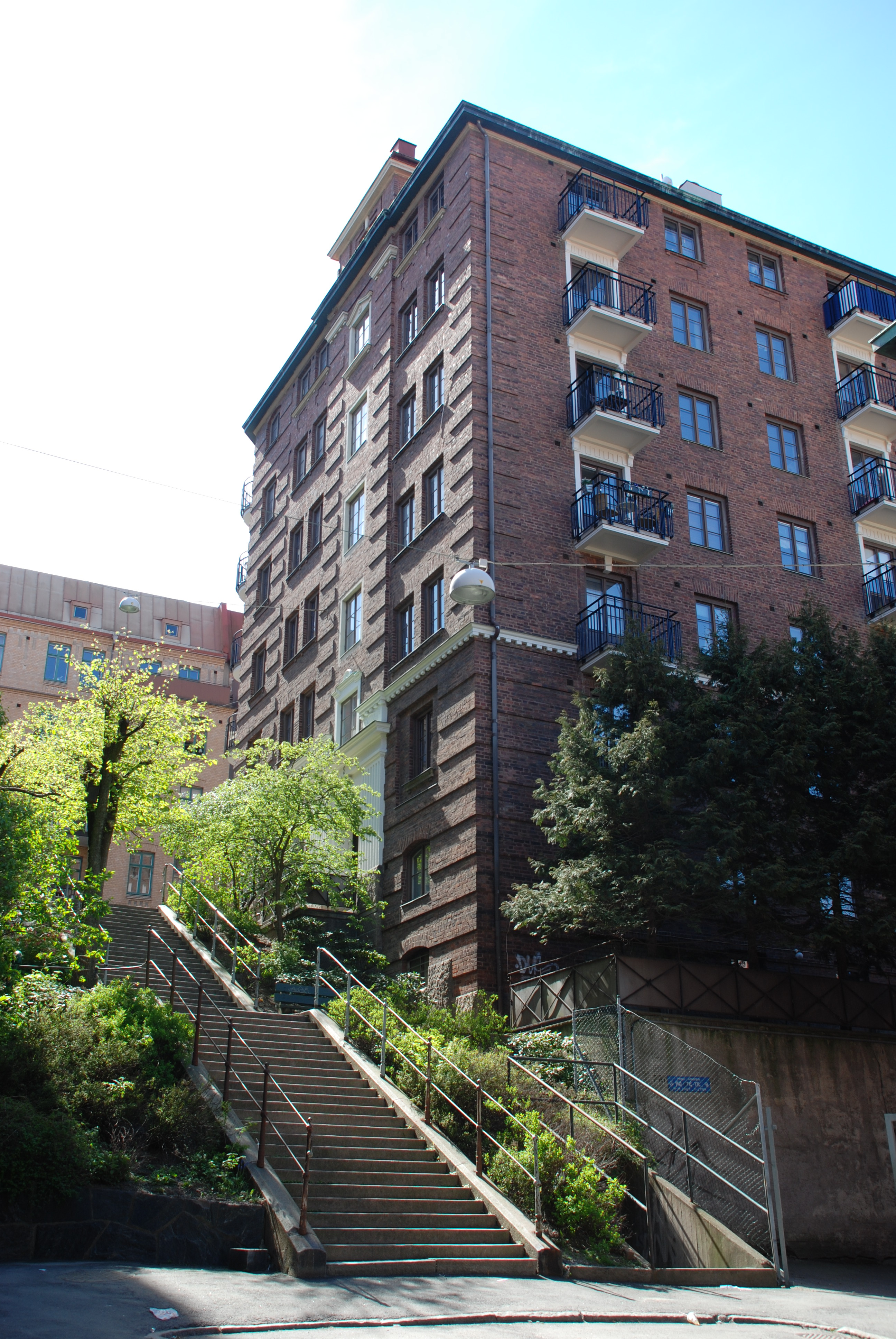 Luntantu street in Göteborg.